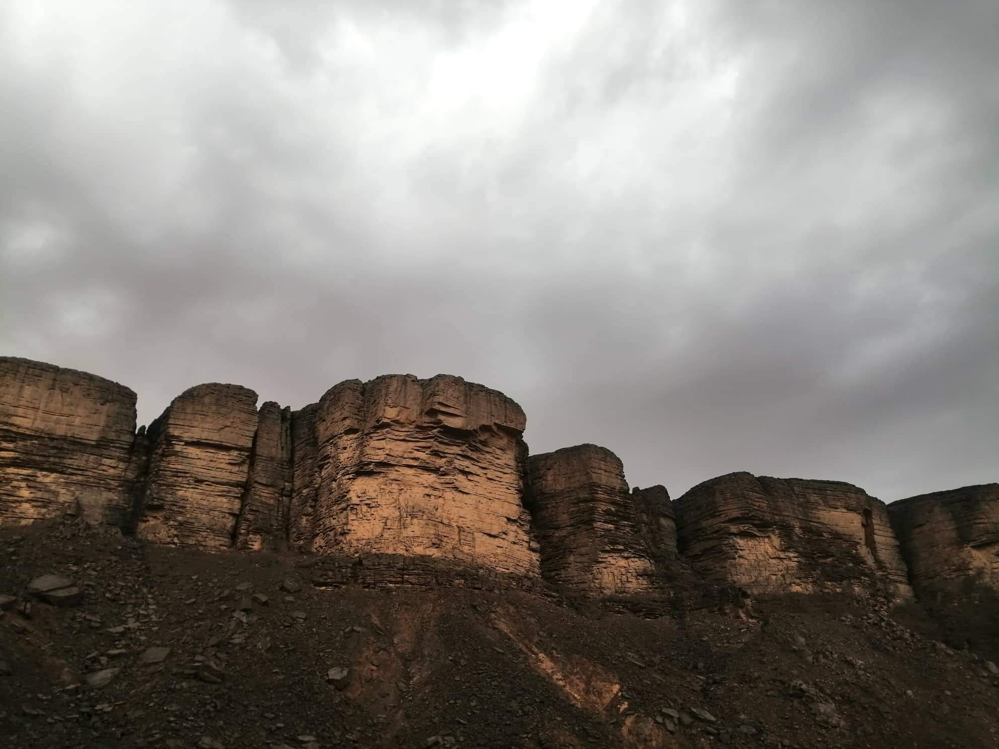 This is an image with the theme "Africa on the Move or Transport" from: Algeria